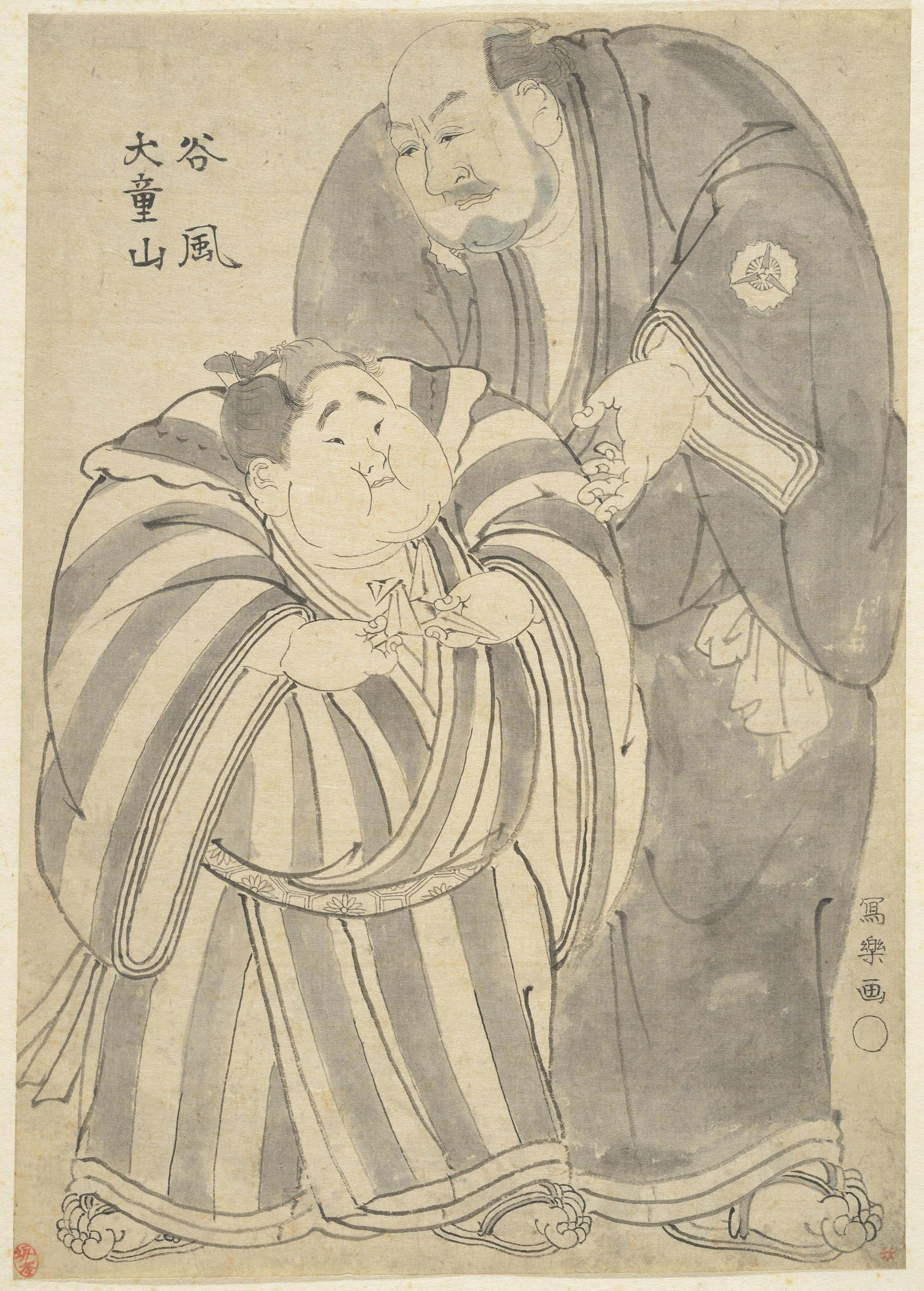 Toshusai Sharaku (act. 1794-95) Tanikaze and Daidozan Signed Sharaku ga, inscribed Tanikaze Daidozan Ink and light color on paper; mounted on paper board 13 1/8 x 9 1/8in. (33.2 x 23.2cm.)